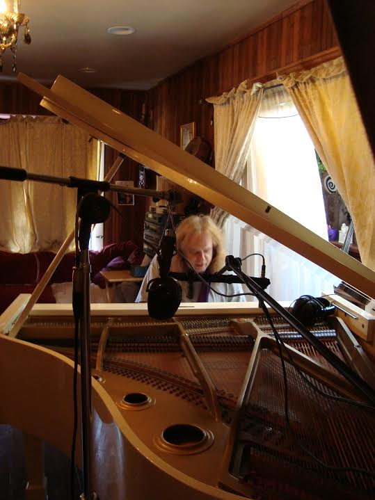 at work